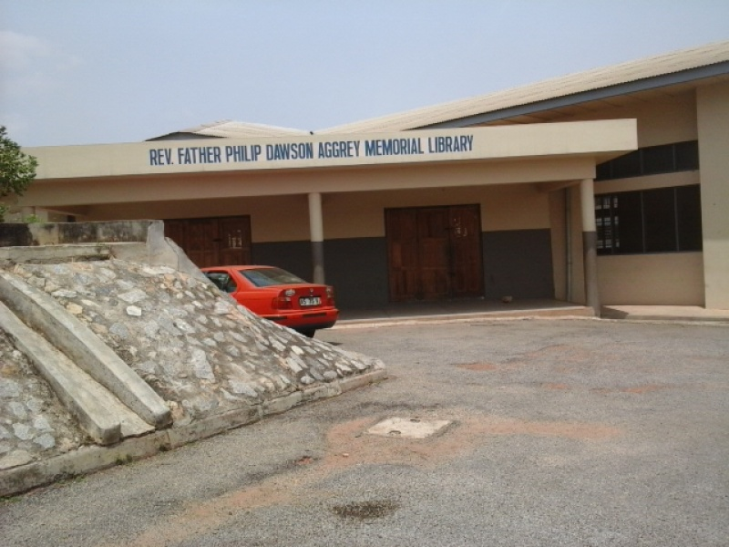 p library